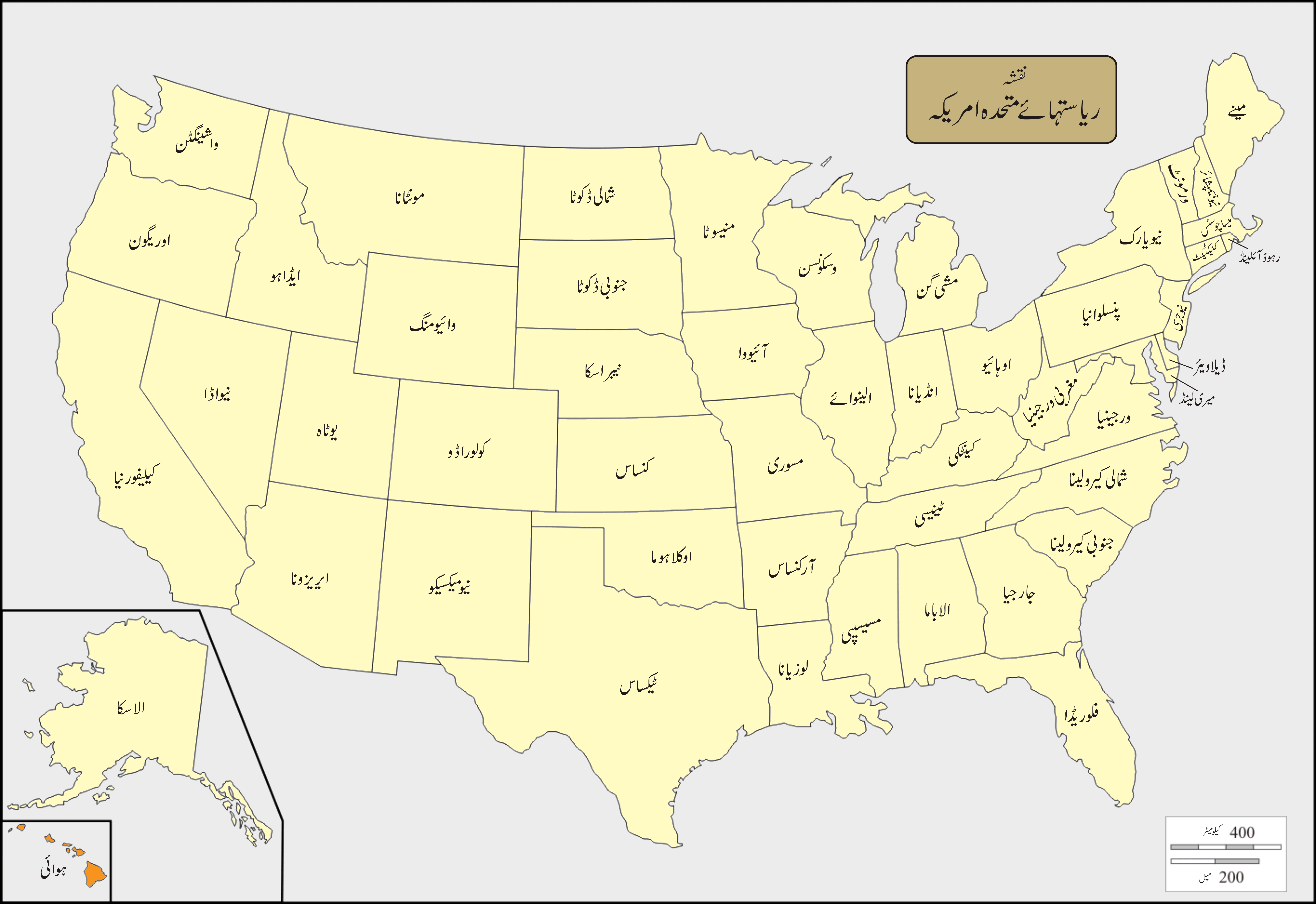 USA Names Hawaii